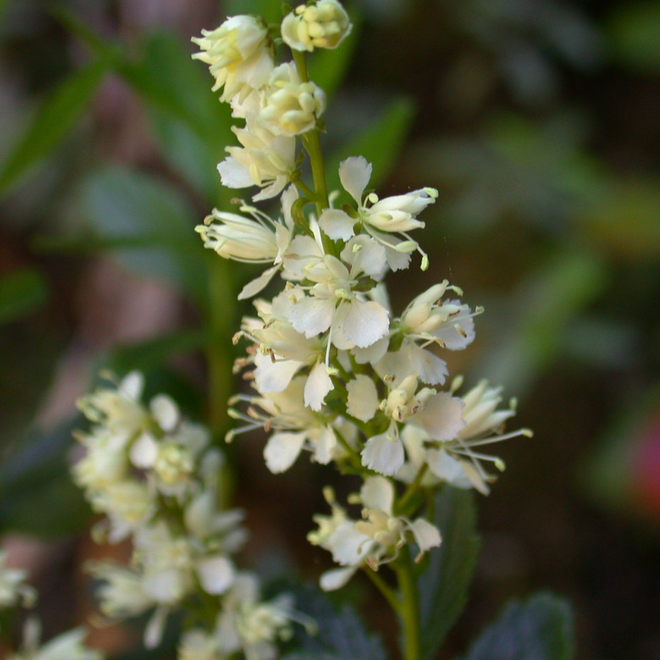 Flowers of Tetracarpaea tasmanica